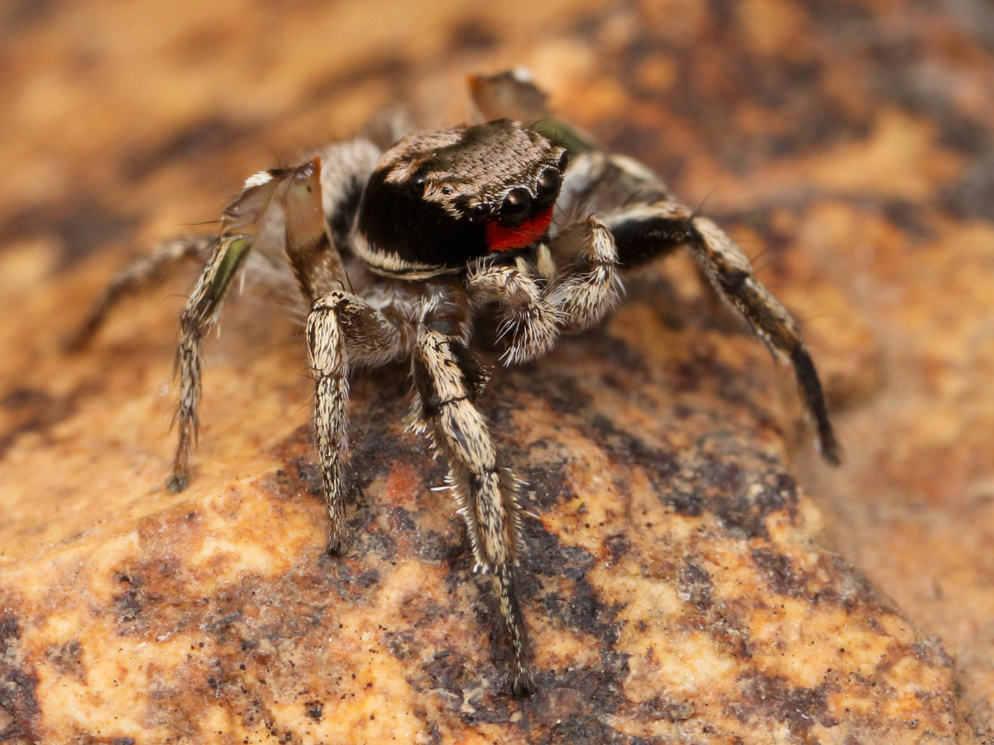 Adult male Habronattus coecatus jumping spider from Columbia, Missouri